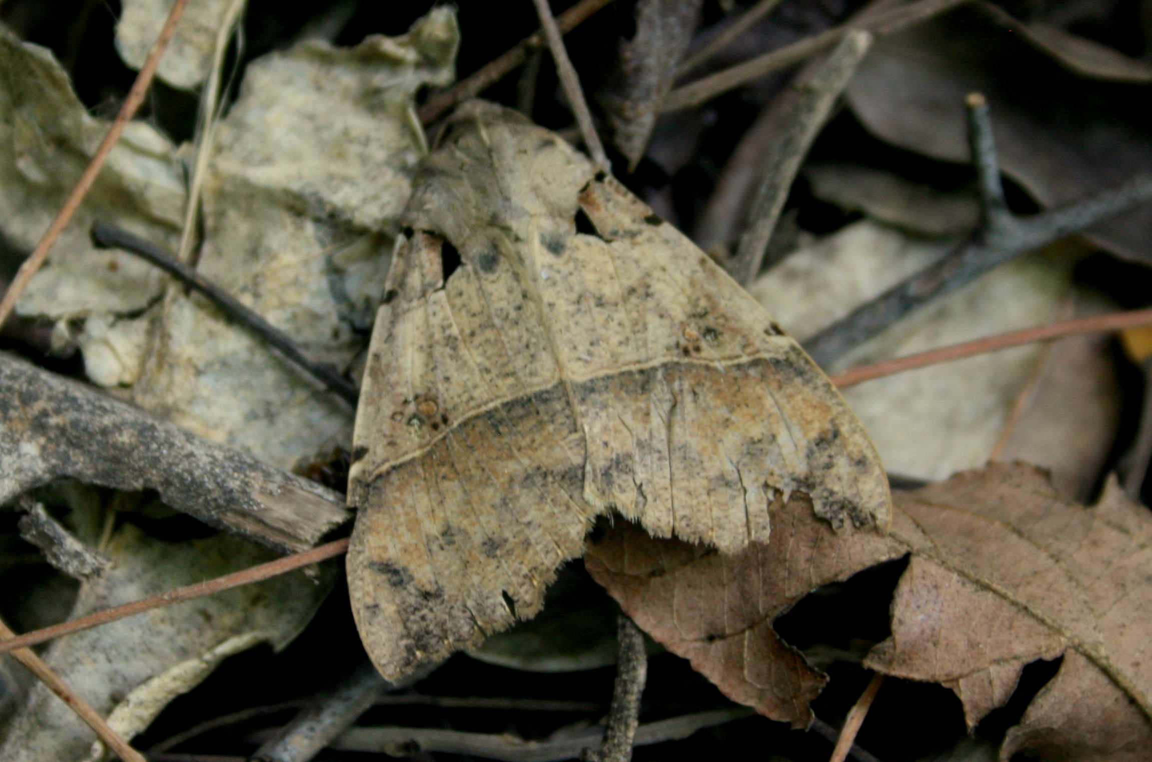 Serrodes campana from Sri Lanka